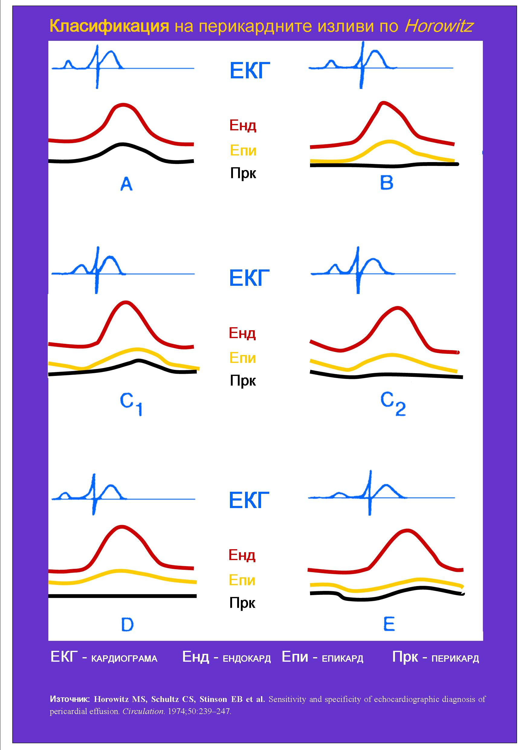 Classification of pericardial effusions using echography. Horowitz (1974).